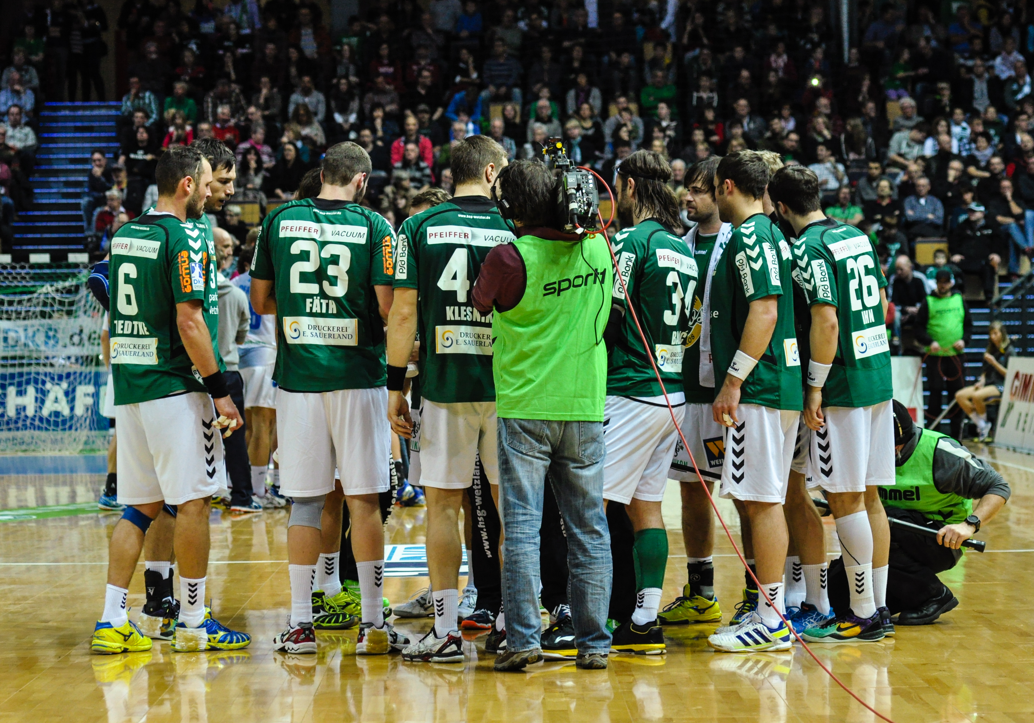 taken on February 8, 2014 during DKB Handball-Bundesliga match between HSG Wetzlar and HSV Hamburg